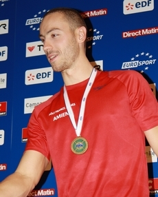 Jérémy Stravius aux Championnats de France en petit bassin 2011